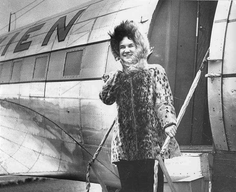 Meyer, Elisabeth Flyvertinne Mille i selskinnsparkas kommer ut av et fly. Point Barrow, Alaska 1950 tallet. Stewardess Mille steps out of a plane in Point Barrow, the northernmost point on the American continent. It's fall and the icy wind penetrates to the marrow, but Miller has learned to dress the practicality of Eskimos in sealskin parka and wolf skins. Probably 1955. 19 x 23,5 cm Gelatin silver print, baryta NMFF.002537-9